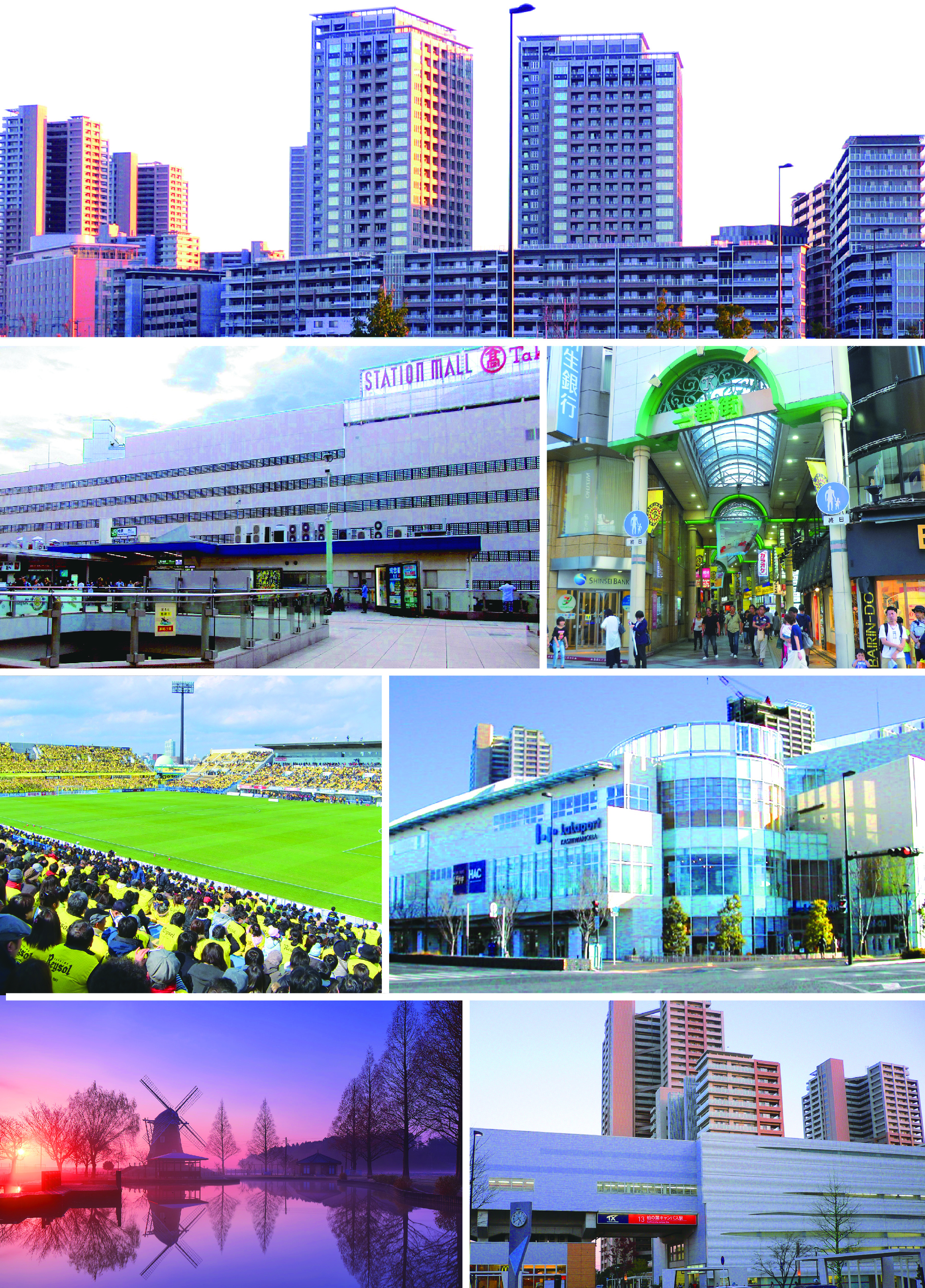 Kashiwa montage